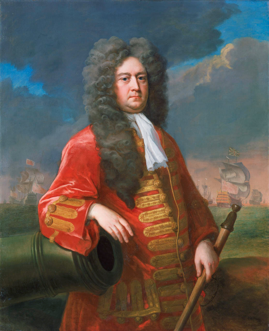 Caption from the museum's website A three-quarter-length portrait to the right of Admiral Sir George Rooke, Admiral of the Fleet. He wears a gold-braided red cloth coat with wide sleeves, grey-brown full-bottomed wig and a white neck-cloth. His right arm rests on the muzzle of a cannon and he holds a telescope in his left hand. Behind him in both the right and left backgrounds, is a depiction of the Battle of Malaga, 1704. Admiral Rooke's flagship, the 'Royal Katharine' with the Union flag at the main, is seen in port-quarter view, engaging the 'Foudroyant', which was the flagship of the Franco-Spanish fleet under the Comte de Toulouse, an illegitimate son of Louis XIV. Though inconclusive, the Battle of Malaga was the only fleet action fought at sea during the War of the Spanish Succession. This portrait is one of a series commissioned for the Royal Collection at the time of Queen Anne and was presented to Greenwich Hospital by George IV in 1824. The Swedish painter travelled to London in 1682, where he became acquainted with Godfrey Kneller. In 1685, he left for Europe and returned to London in 1689 where he remained. During Dahl's absence, Kneller consolidated his supremacy as the fashionable portrait painter, although the prolific Dahl was his closest competitor. Politically, Kneller supported the ascendant Whigs, while Dahl was a Tory. The death of Kneller in 1723 left Dahl the principal London portraitist.